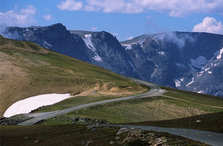 Approaching Beartooth Pass [10,947 ft (3,337 m) high] from the west along the Beartooth Highway, which crosses the Beartooth Mountains. The Beartooth Mountains are a sub-mountain range of the Rocky Mountains System.